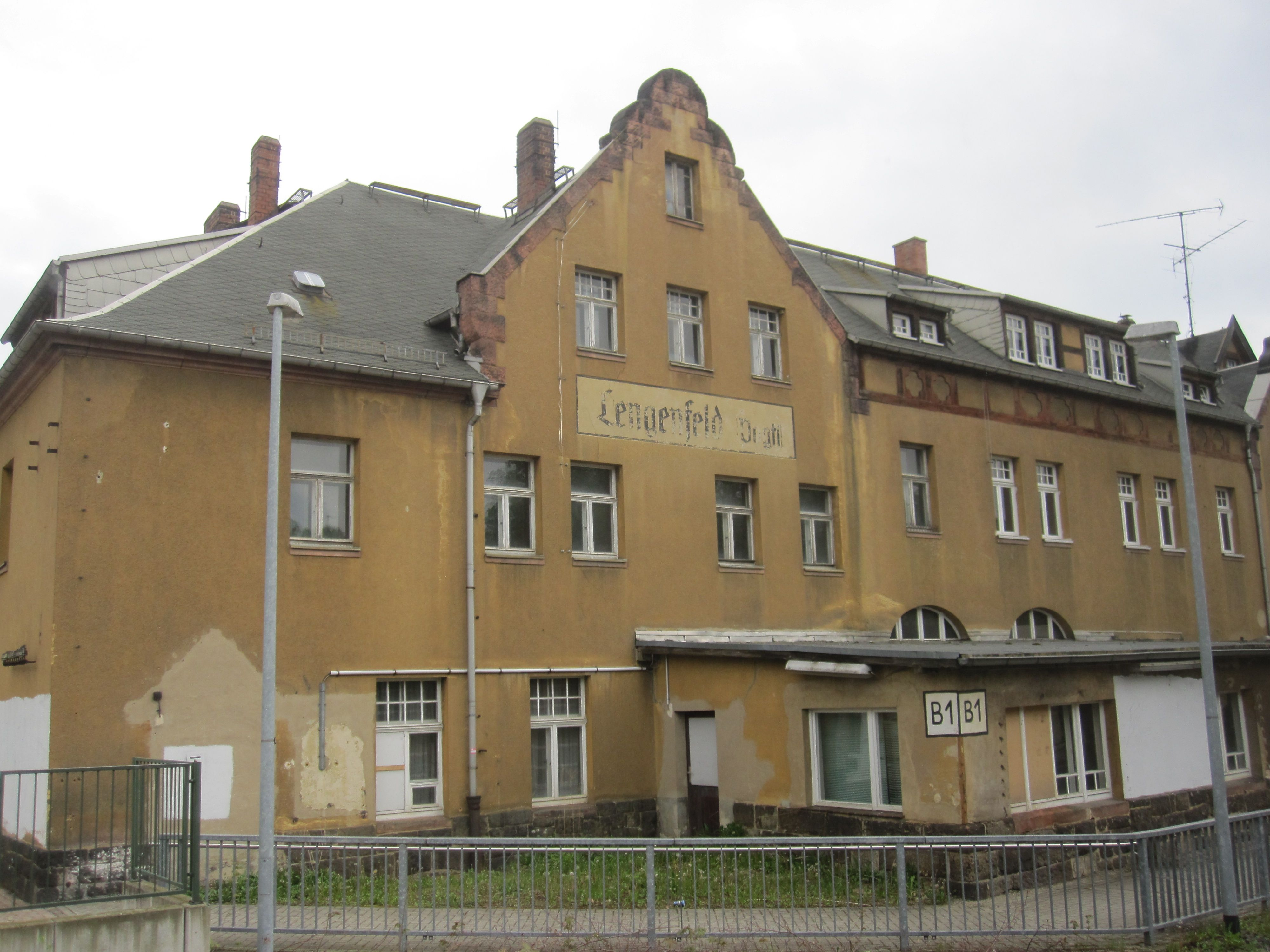 Railroad station